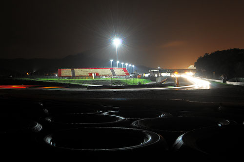 First corner of Estoril track in the VdeV 2009 night race Contribution by